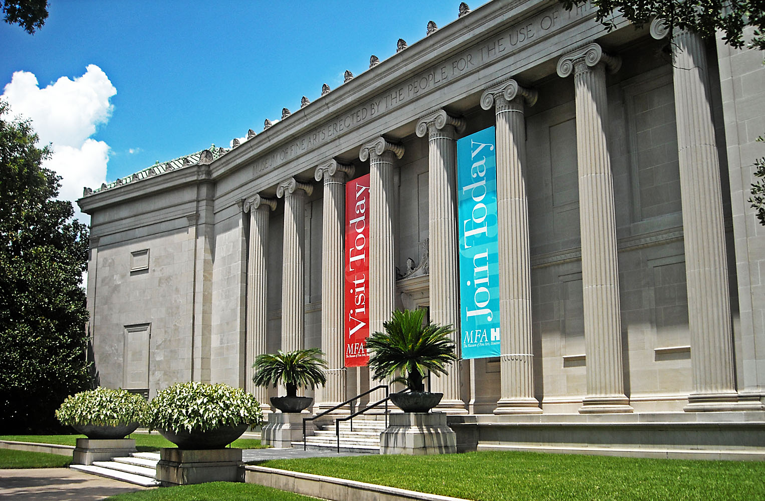 The façade of the Caroline Wiess Law Building of the Museum of Fine Arts in Houston.